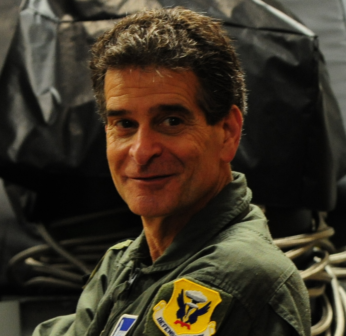 Dean Kamen, the FIRST Robotics founder, left, speaks with U.S. Air Force Capt. Ryan Magner, a 509th Operations Support Squadron B-2 Spirit pilot, about B-2 egress procedures at Whiteman Air Force Base, Mo., April 26, 2016. Kamen met Airmen and FIRST Robotics alumni during his visit and received an incentive flight in a B-2 Spirit. The U.S. Air Force and FIRST Robotics share an interest in developing youth into future leaders through exposure to education in science, technology, engineering and mathematics. (U.S. Air Force photo by Airman 1st Class Keenan Berry) Unit: 509th Bomb Wing Public Affairs Whiteman Air Force Base